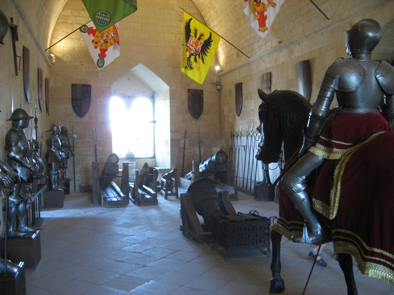 The Weapons Room or Armory in the Alcázar of Segovia.